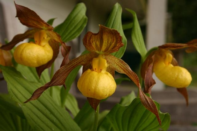 Cypripedium pubescens